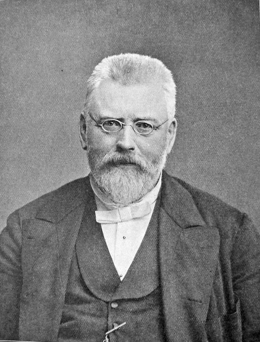 Christen Berg (18 December 1829, Fjaltring Sogn – 28 November 1891, Copenhagen) was a Danish politician.